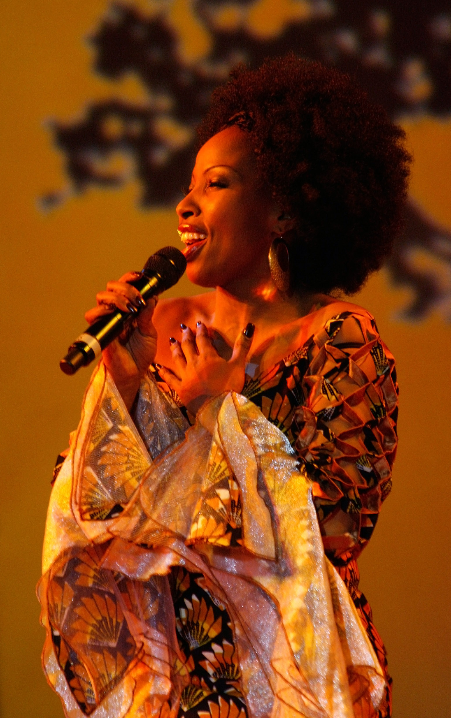 Velile at the presentation of the Austrian Sportspersonalities of the Year 2010 (Eventhotel Pyramide in Vösendorf, Lower Austria).